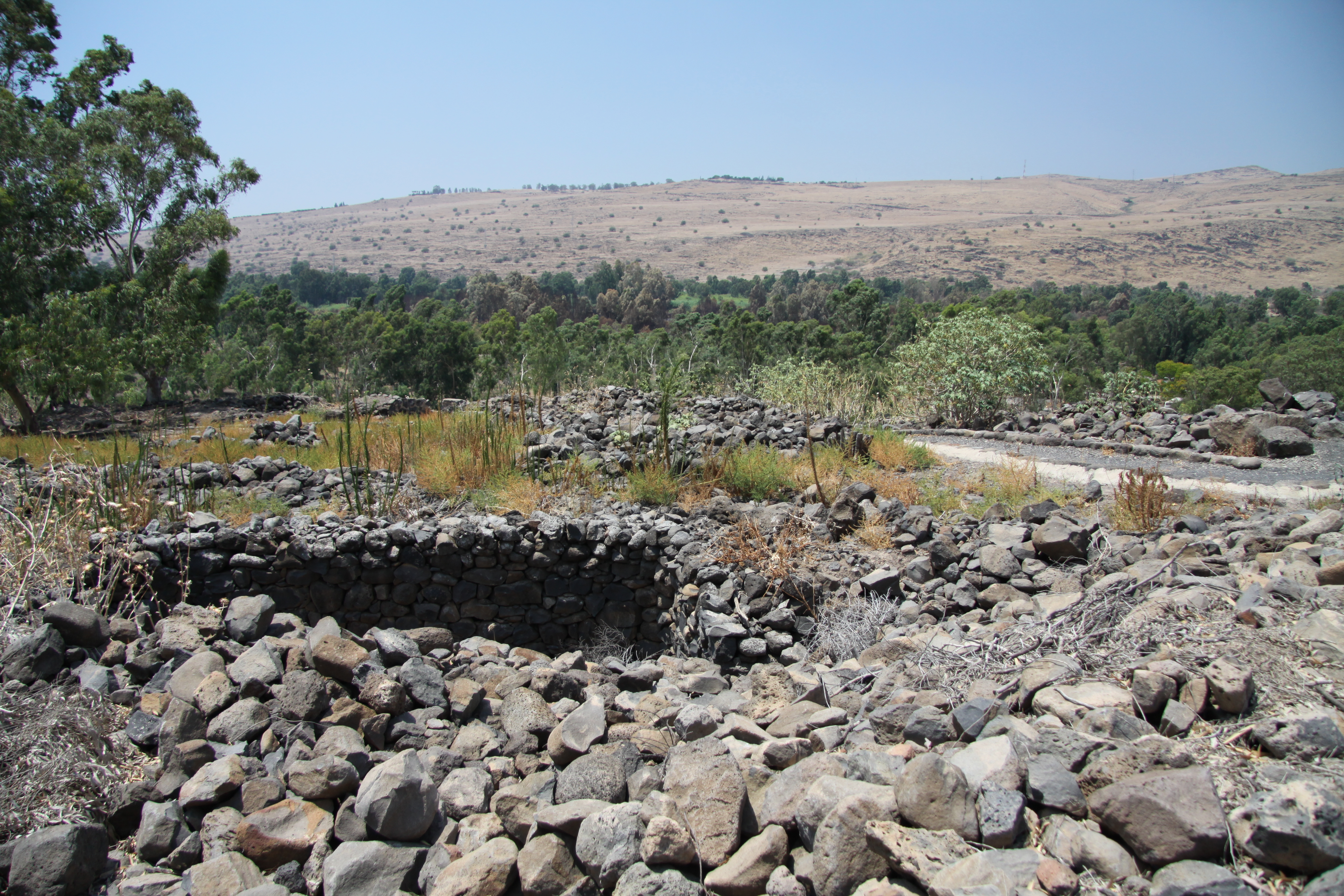 Ruins of fishing village Bethsaida meantiond in New Testament of Bible, northern from Sea of Galilee, Israel